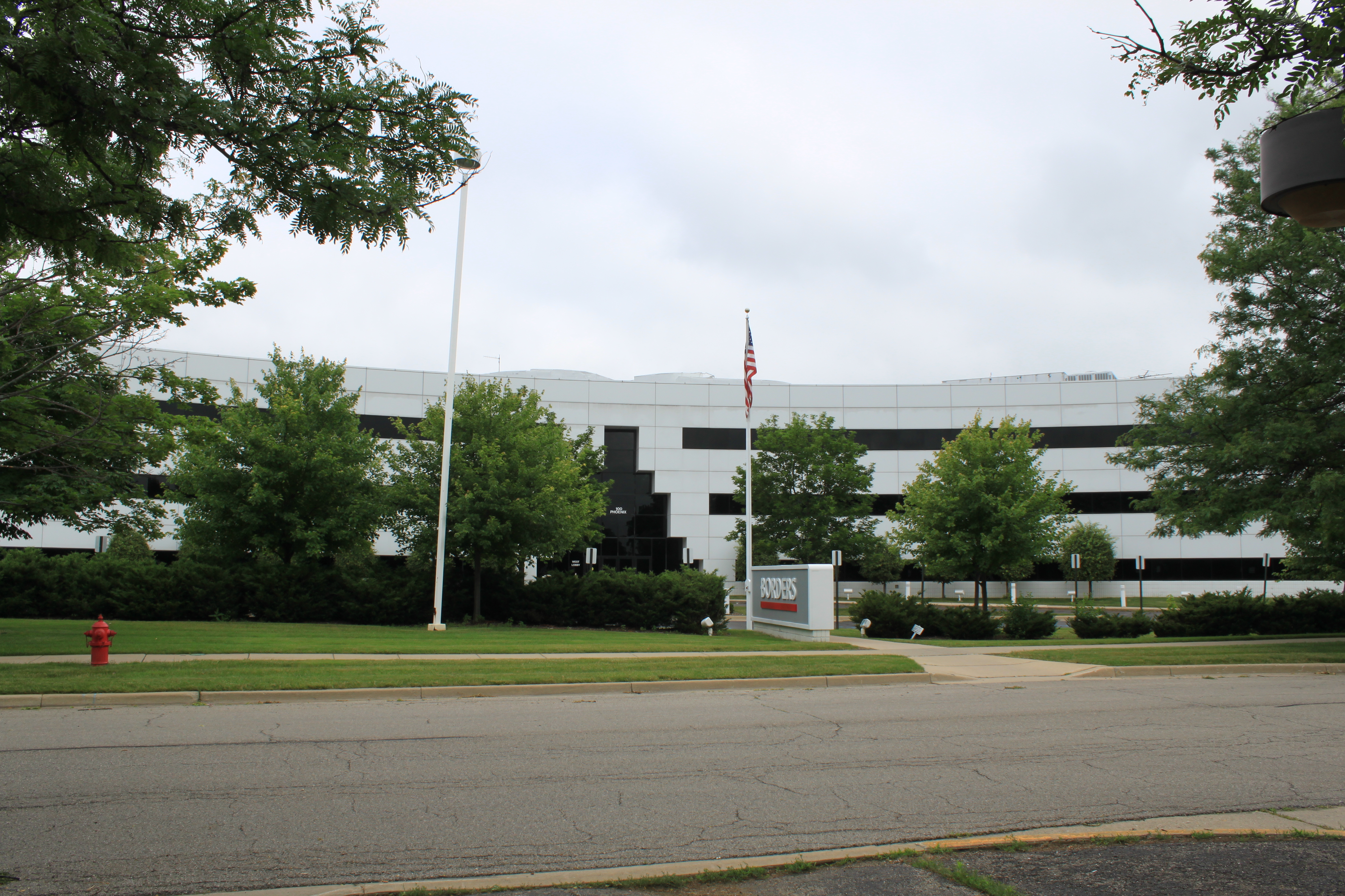 Borders headquarters building 100 Phoenix Dr., Ann Arbor, Michigan